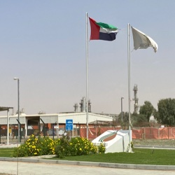 SNOC's main natural gas, LPG and hydrocarbon condensate processing facility located in the Al Sajaa area of Sharjah, UAE.